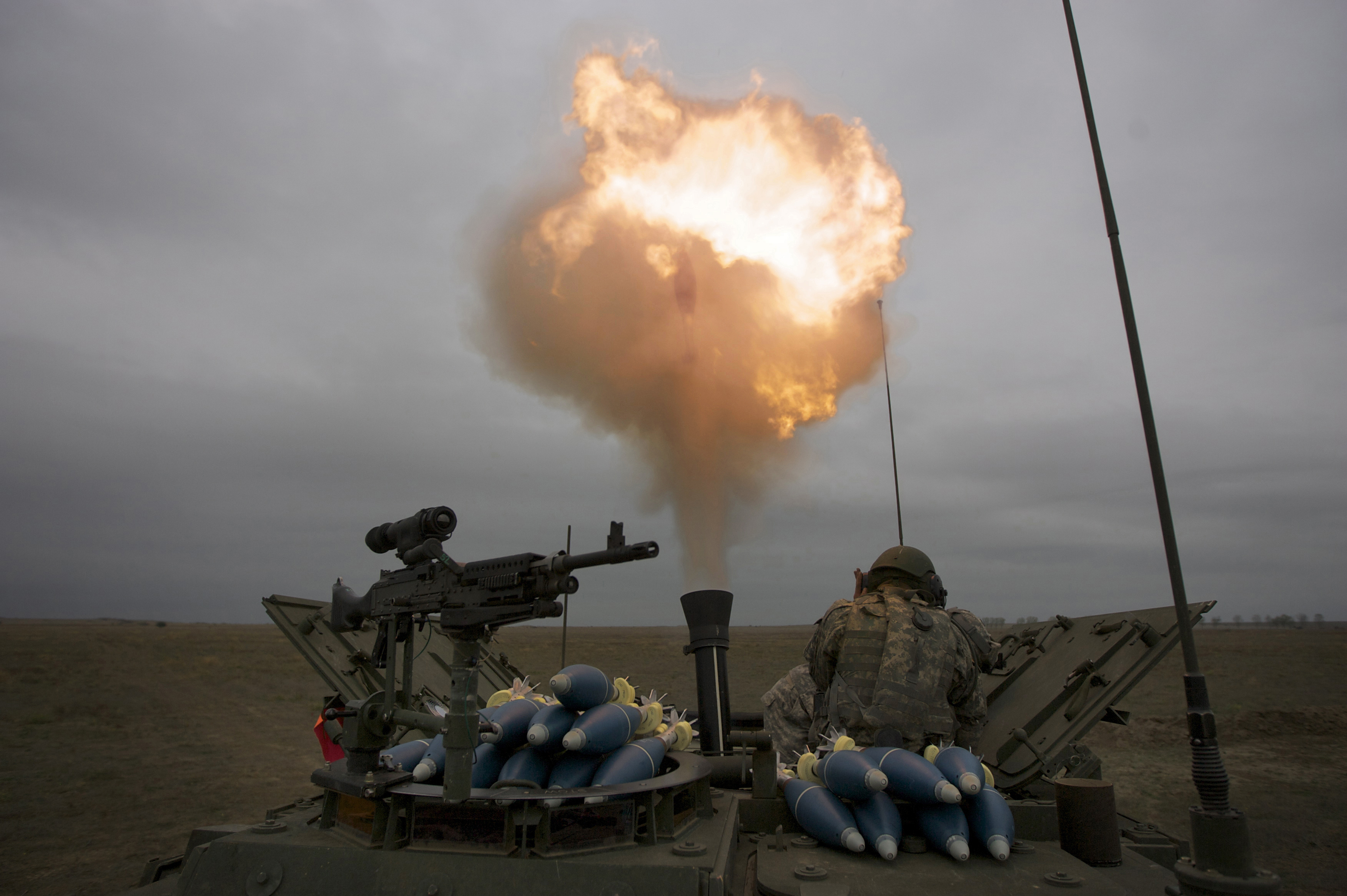 U.S. Army Pfc. Kevin B. Mettler (front), 22, and Pvt. Jason R. Pompa (rear), 26, mortar gunners for Mortar Platoon, L Troop of the 4th Squadron, 2nd Stryker Cavalry Regiment, based in Vilseck, Germany, cover their ears as a long-range training round is fired out of a 120-mm mortar which has a maximum range of 6,800 meters. The training rounds have cartridges similar to 12-gauge shotgun shells at the top of each round that detonates a white flash upon impact instead of sending out shrapnel as a live mortar would. See more at